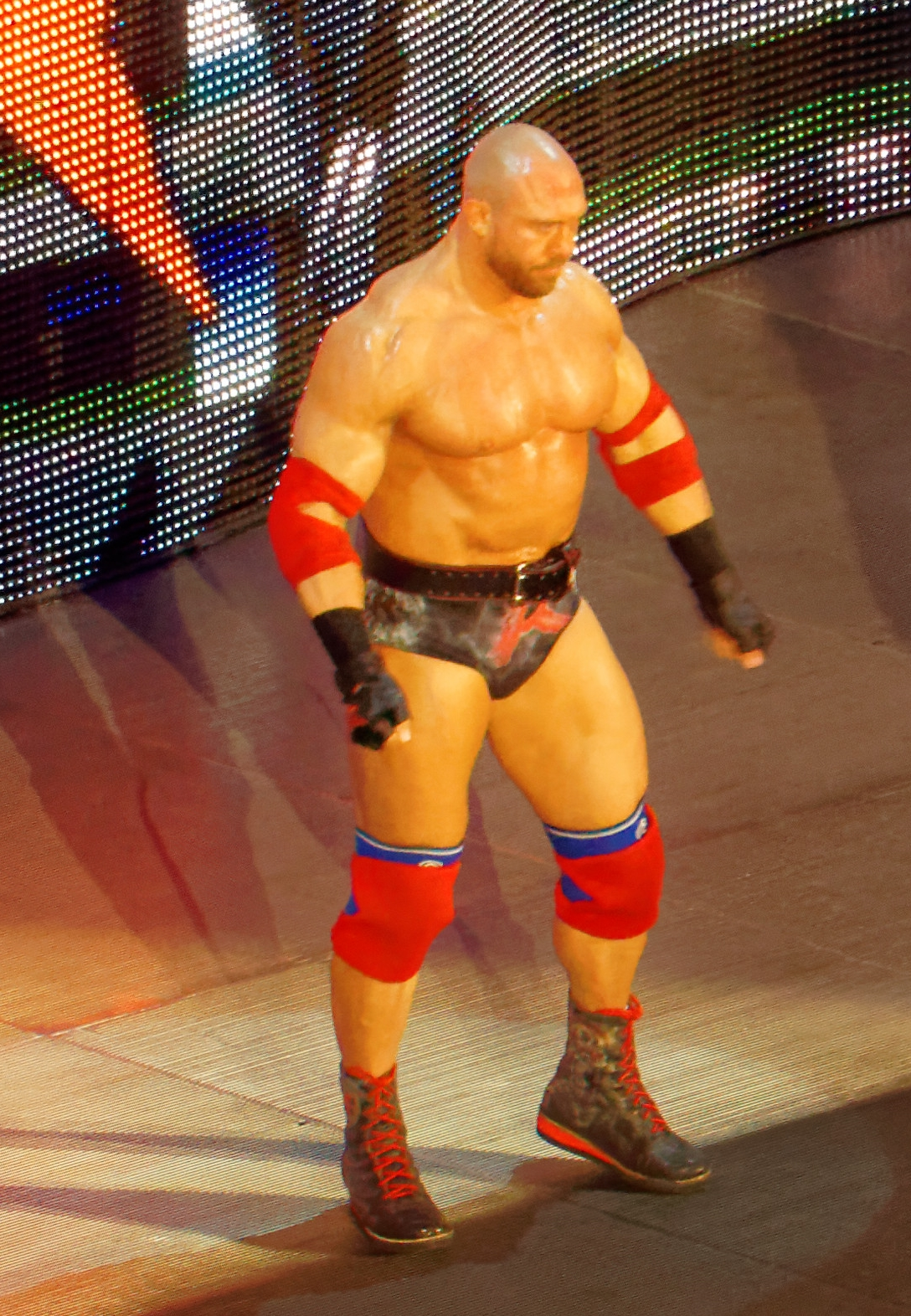 Ryback on Raw on April 4, 2016.